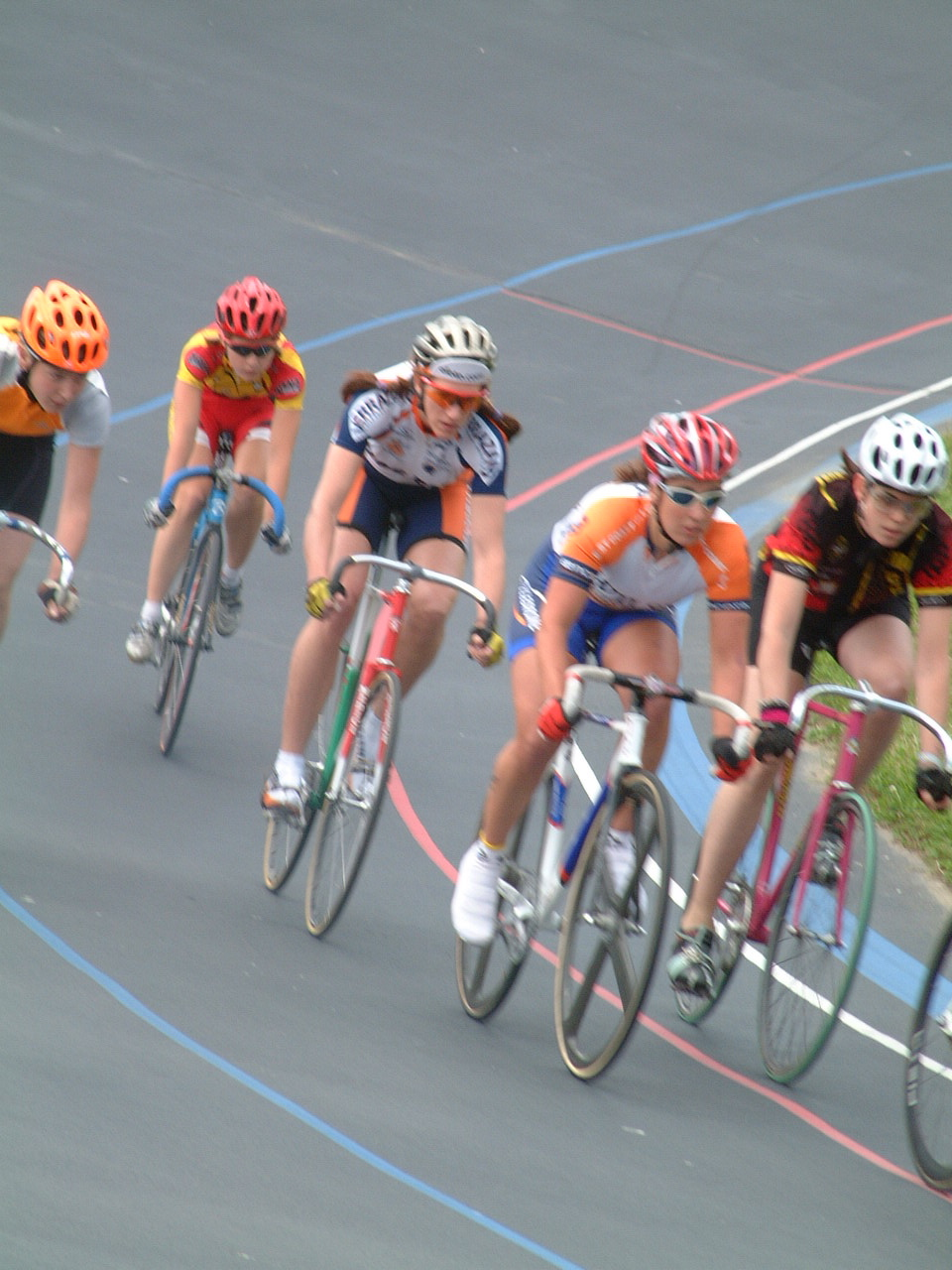 Kissena Classic Race May 21 2005 Fast. Graceful. Hott. Haha... My wife wants to be a bike messanger now. Photo: Lydia W.